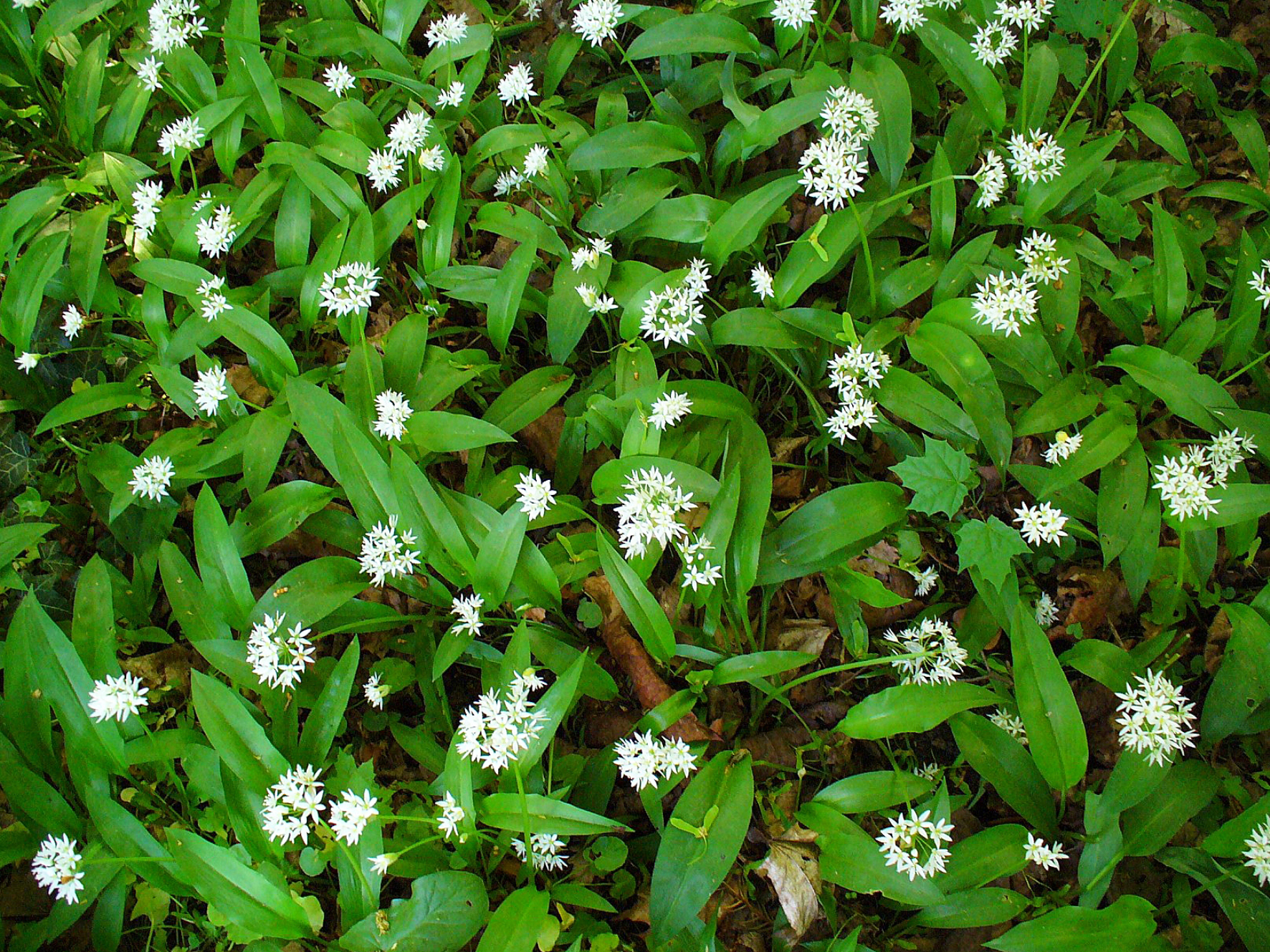 Allium ursinum, Alliaceae, Ramsons, Buckrams, Wild Garlic, Broad-leaved Garlic, Wood Garlic, Bear's Garlic, habitus; Karlsruhe, Germany. The blooming plants are used in homeopathy as remedy: Allium ursinum (All-u.)